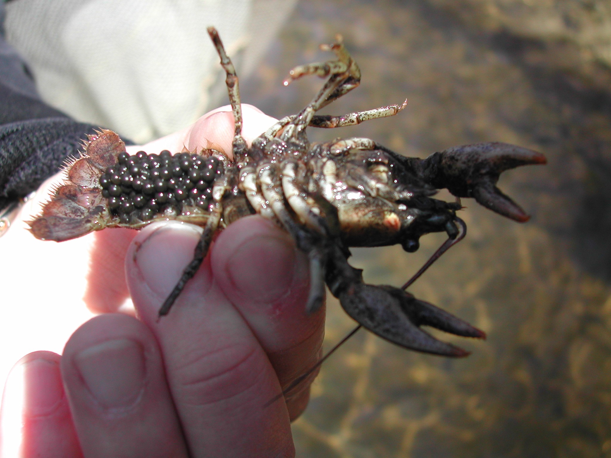 A female Alleghany Crayfish (Orconectes obscurus) with eggs attached to swimmerets below the animal's abdomen. This specimen was collected from the West Branch of the Mahoning River in Ravenna, Ohio.